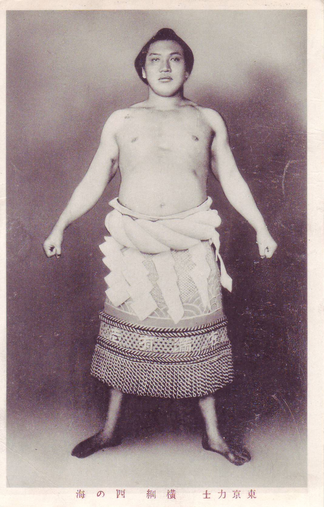 Postcard of Nishinoumi Kajirō III.